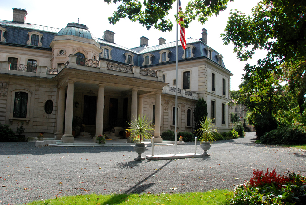 The Residence of the U.S. Ambassador in Prague’s Bubeneč was built by Otto Petschek in 1924—30.